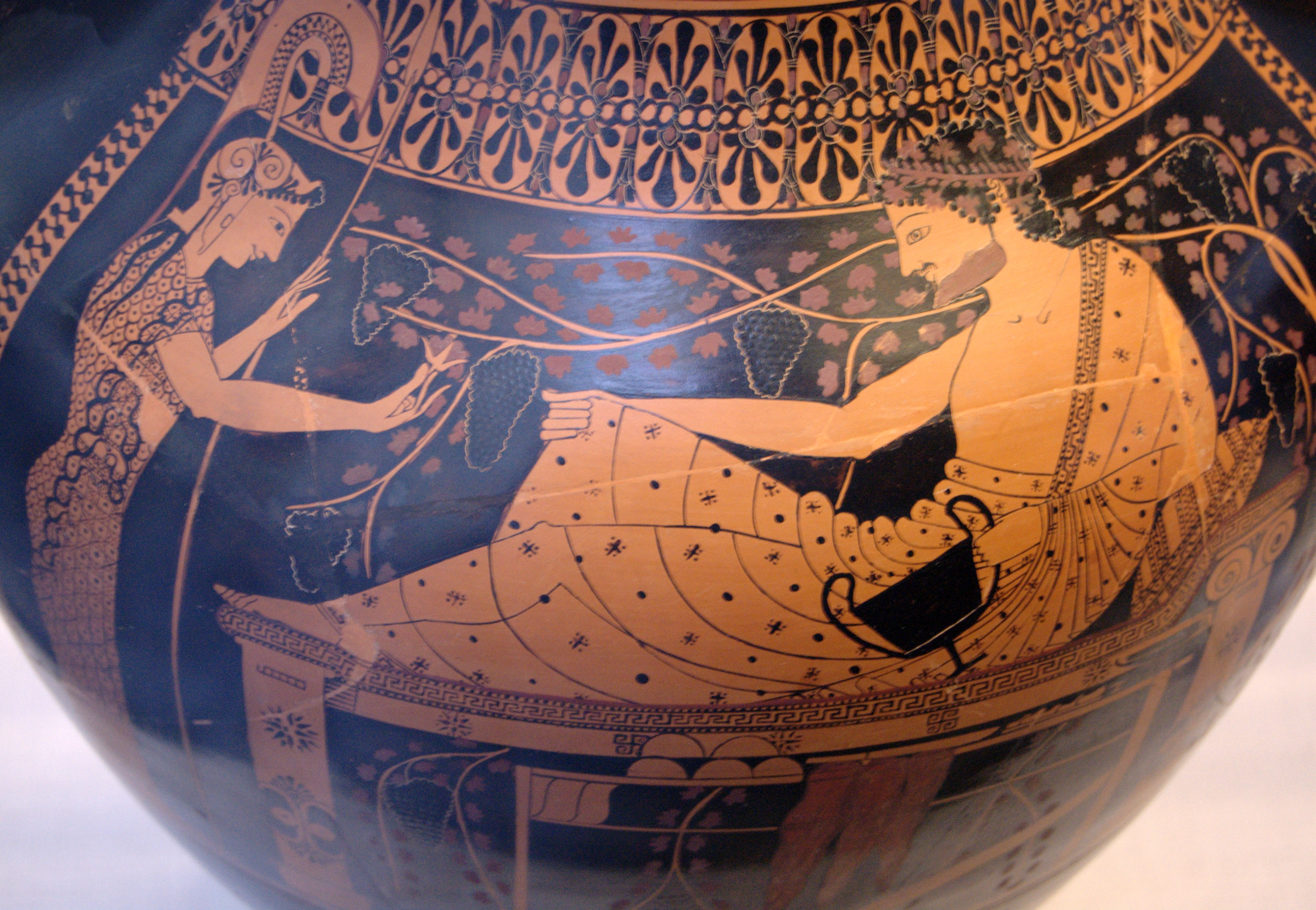 Heracles and Athena. Side A (red-figure) of an Attic bilingual amphora, 520–510 BC. From Vulci.